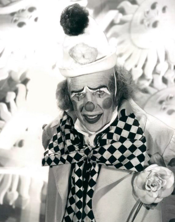 Photo of Ed Sullivan as a clown for a 1972 CBS television special on clowns and the circus. His long-running The Ed Sullivan Show where so many performers got their start, had been cancelled by CBS the year before.